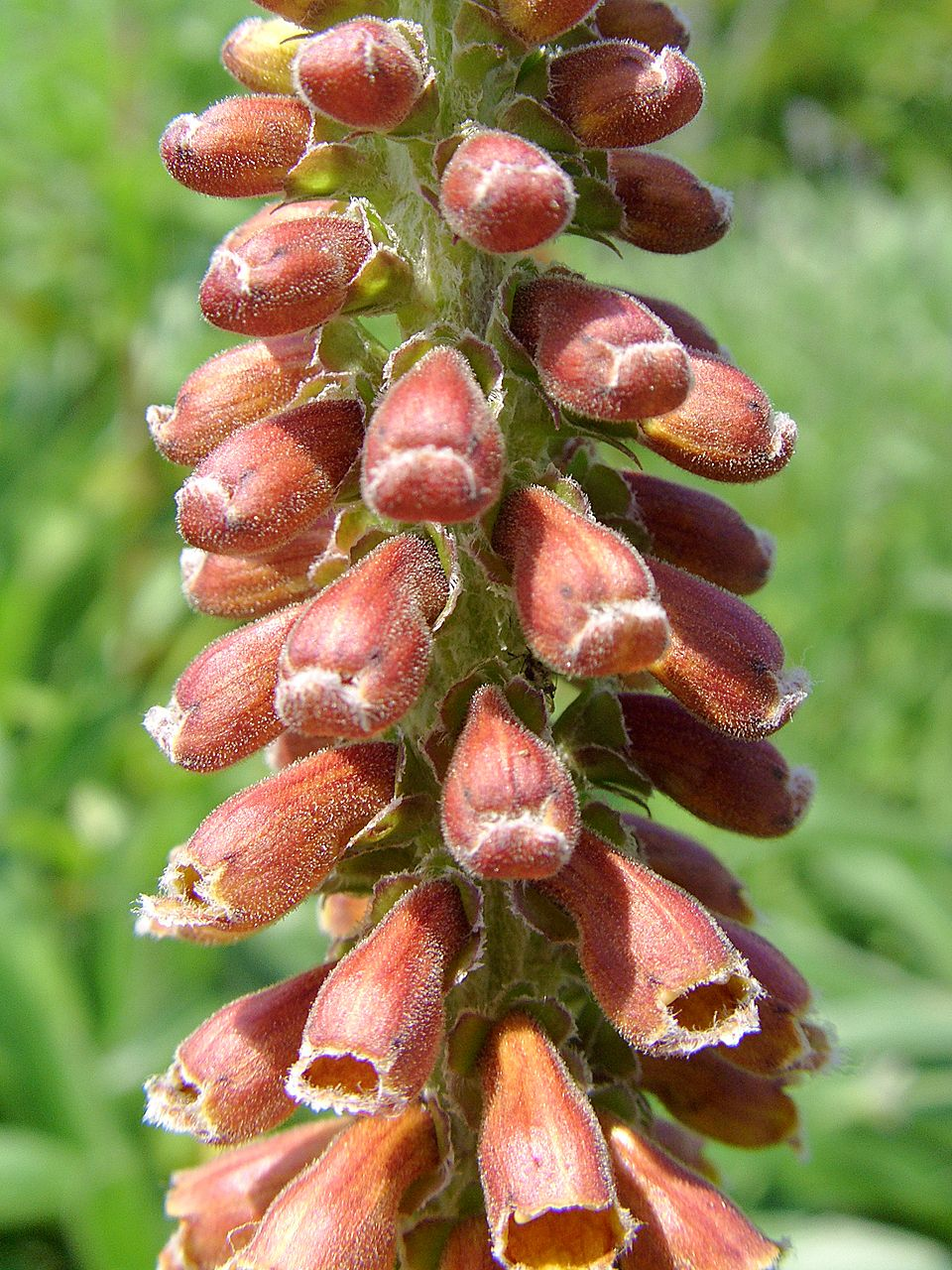 Digitalis parviflora - flowers and buds